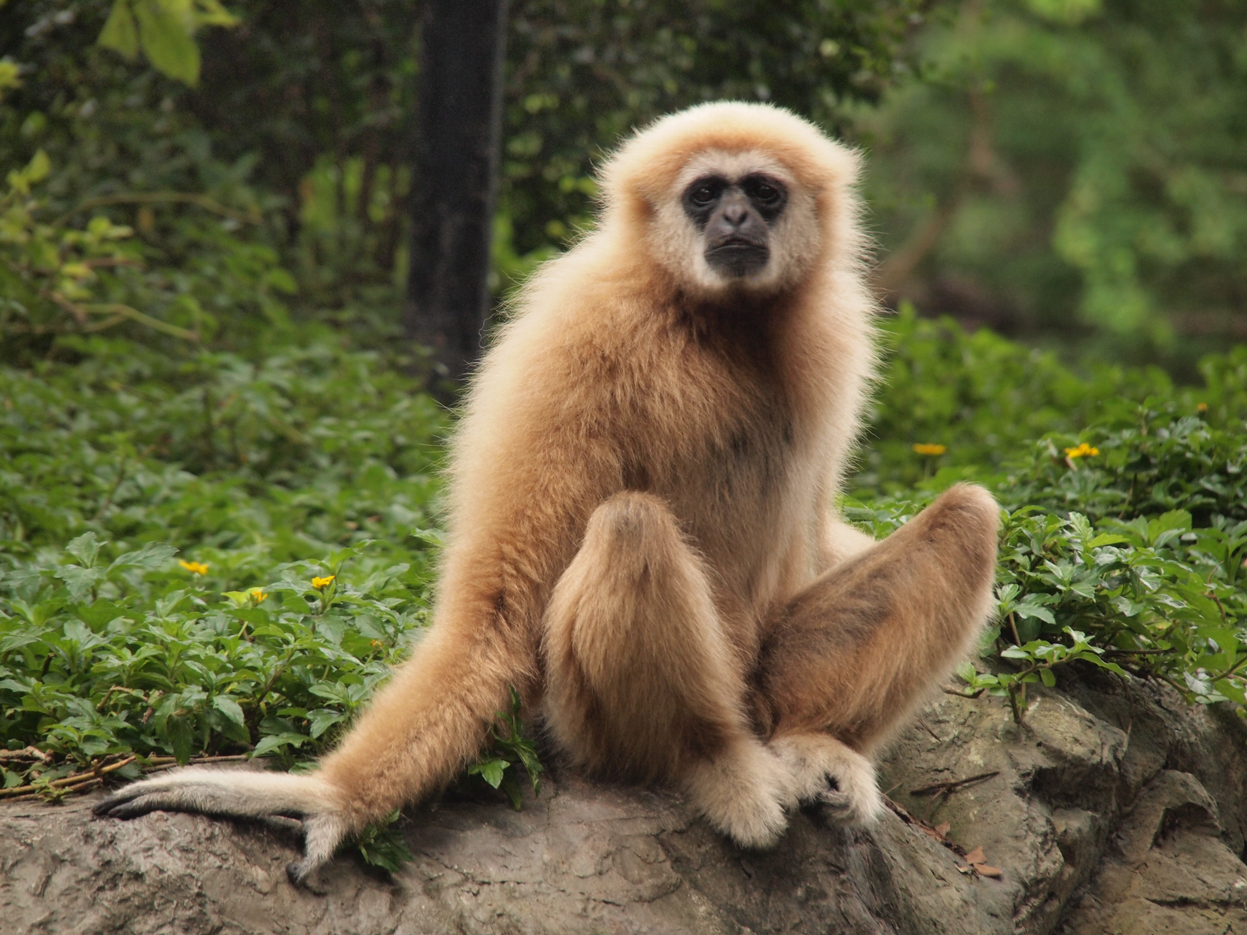 The Lar Gibbon (The White-handed Gibbon)